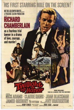 Theatrical poster for the film Twilight of Honor (1963)